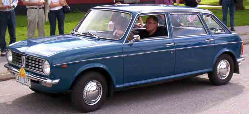 Austin Maxi 1750 1973